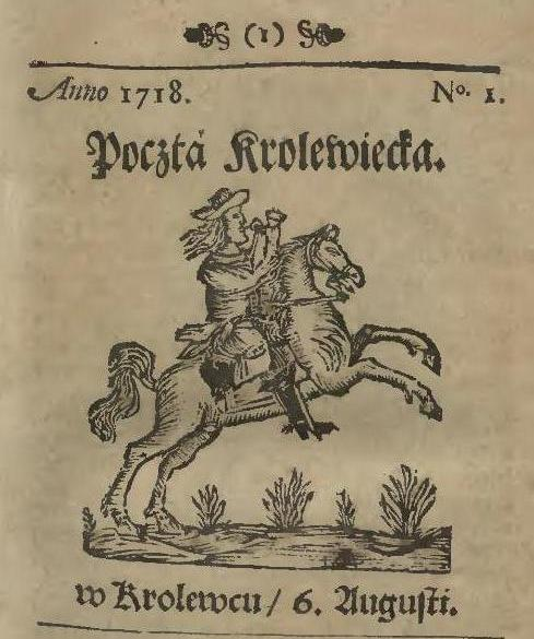 Page from Poczta Królewiecka - second oldest polish newspaper.